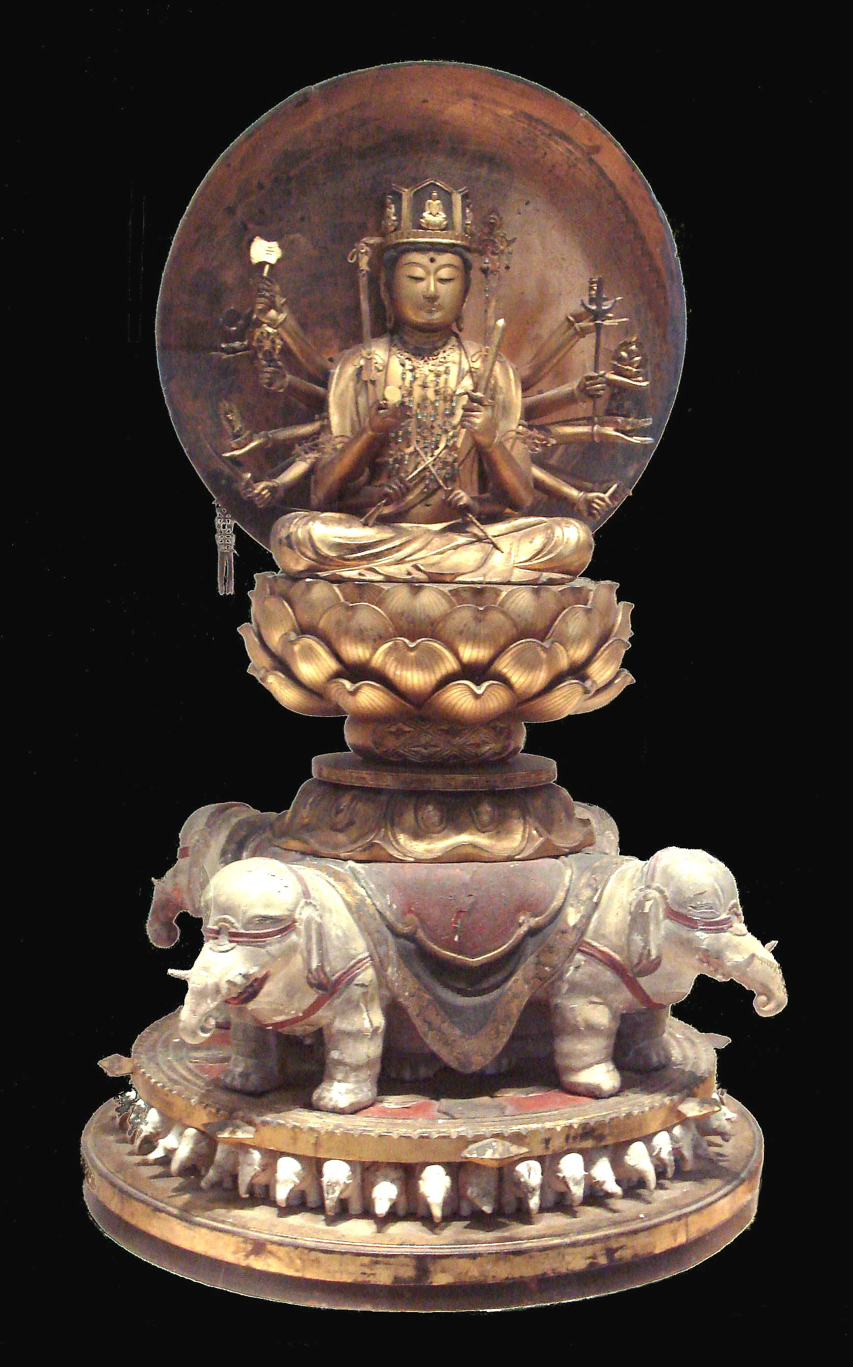 Fugen_the_life_preserver_full_view